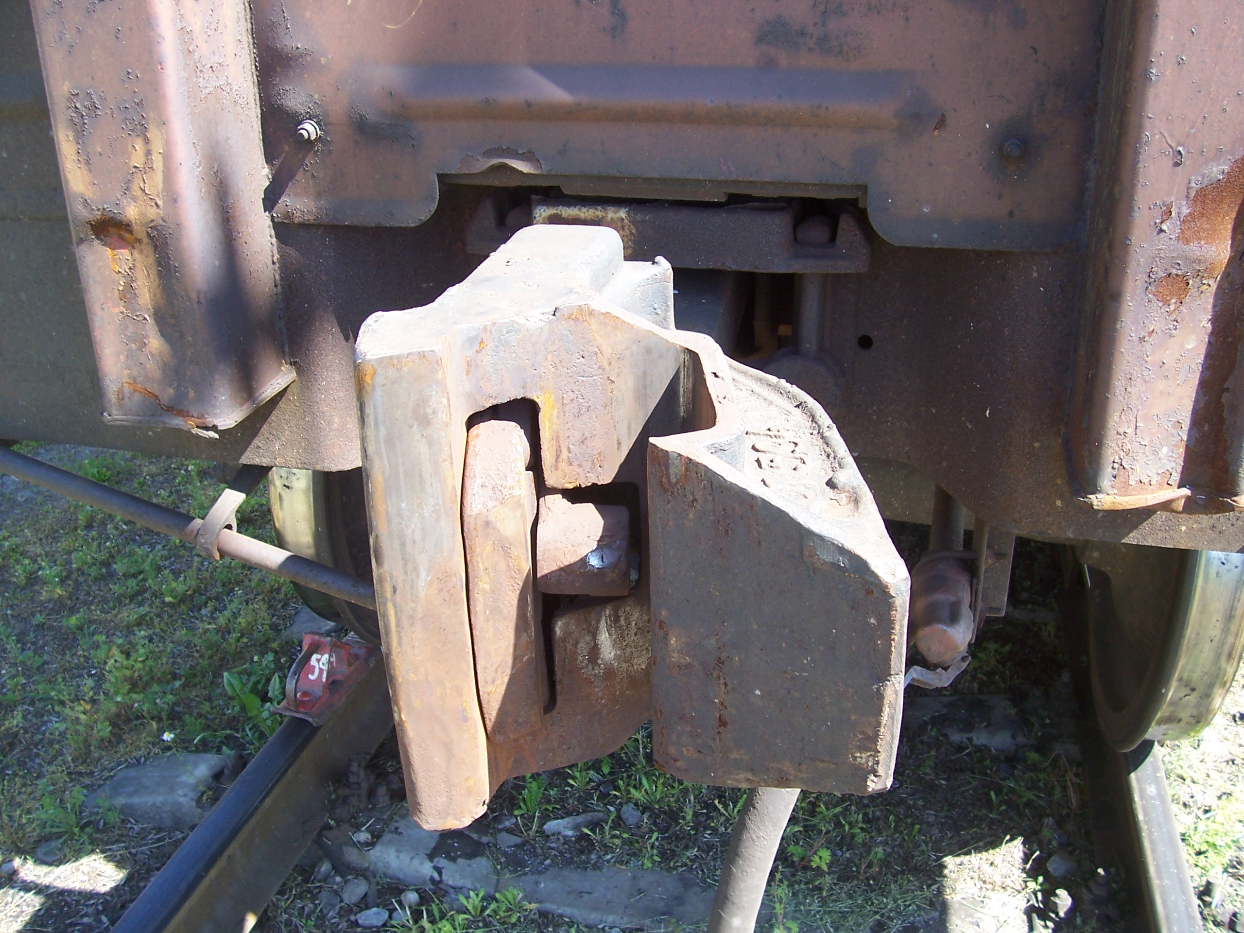 Eine russische SA-3 Eisenbahnkupplung an einem Güterwagen